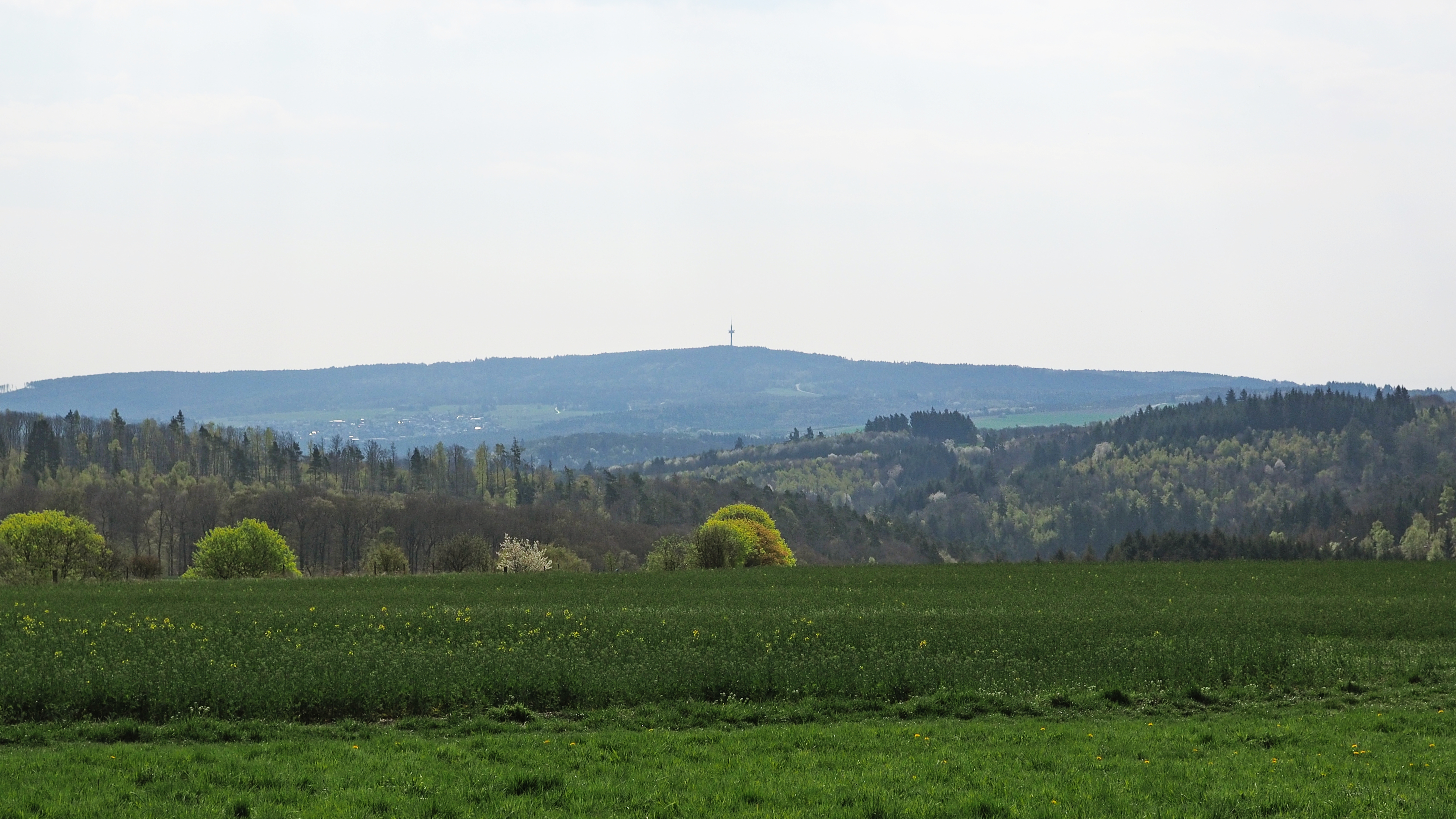 "Hohe Wurzel" mountain as seen from Kemel